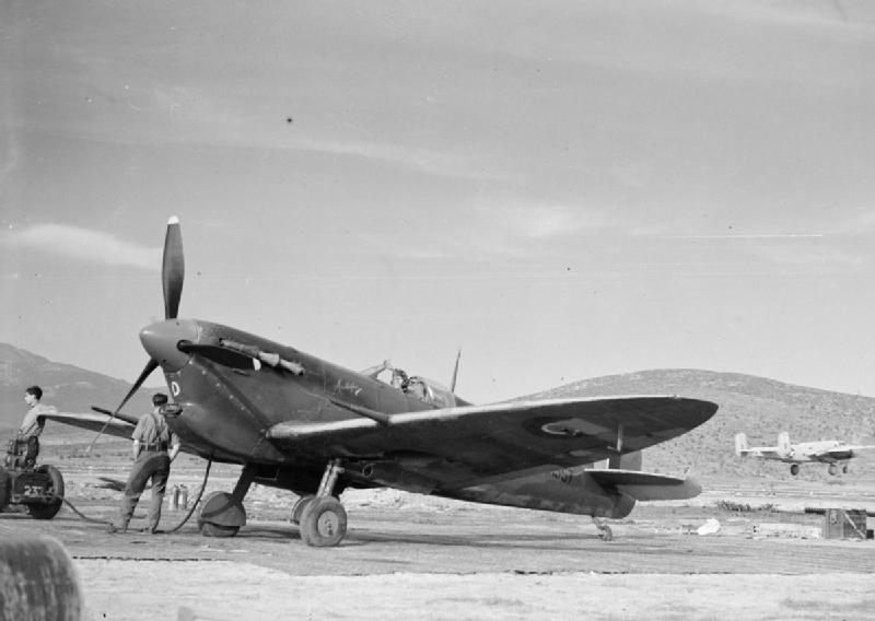 Royal Air Force Operations in the Middle East and North Africa, 1939-1943. Supermarine Spitfire Mark VC, ER557 'EF-D' "Mustapha", of No. 232 Squadron RAF awaits the signal to start up in its dispersal at Tingley, Algeria. It formed part of the fighter escort for a force of North American B-25s of the 12th Bombardment Group Detachment USAAF, one of which can be seen taking off at right.